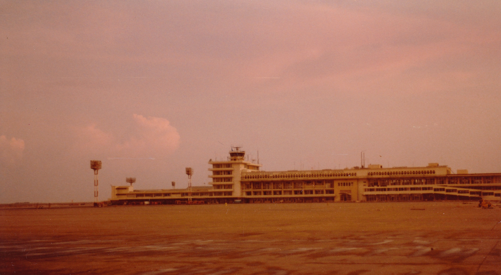 Beirut International Airport Pentax ME Super